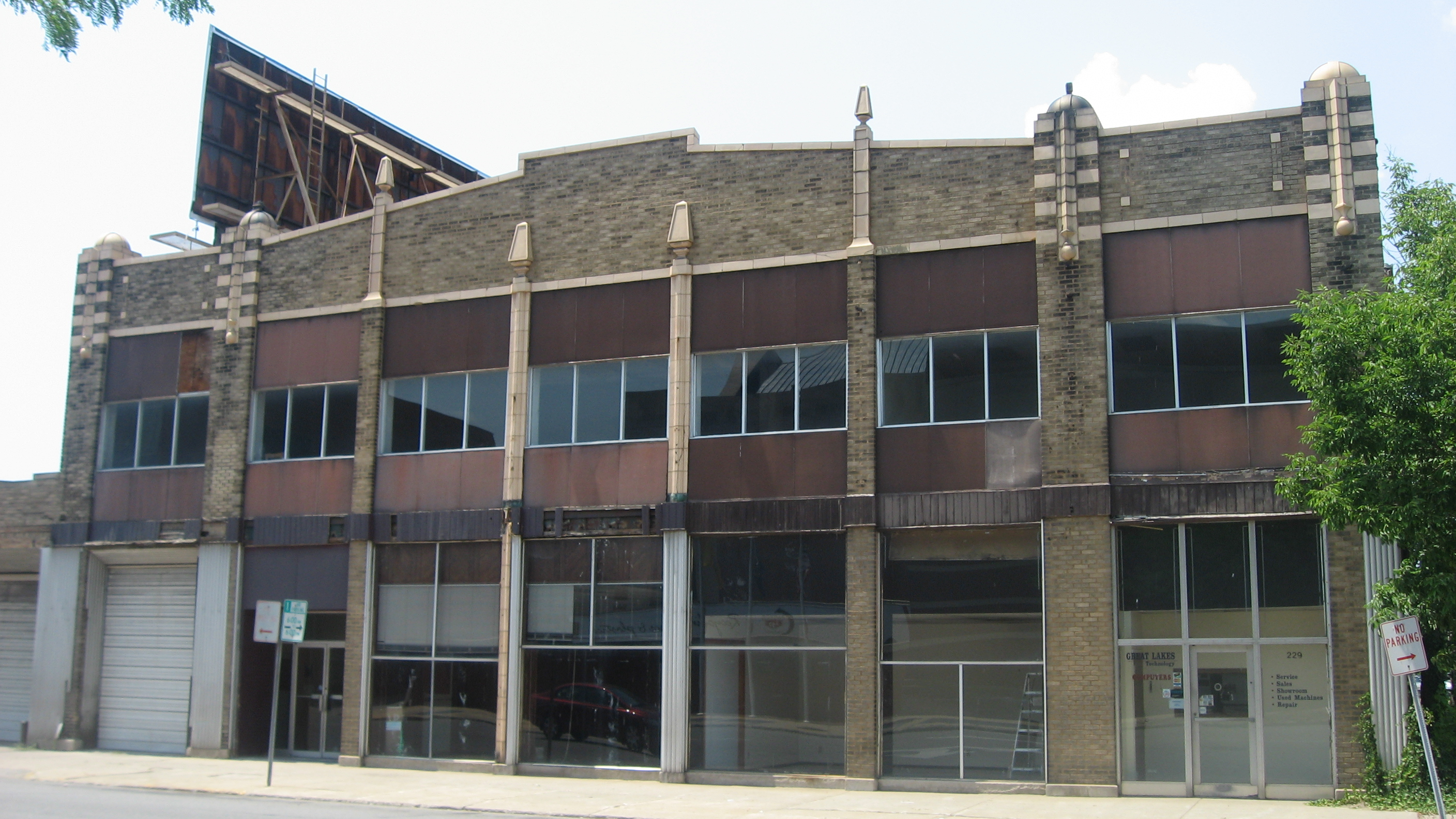 Front of the former W.R. Hinkle and Co. offices, located at 225 N. Lafayette Boulevard in South Bend, Indiana, United States. Built in 1922, it is listed on the National Register of Historic Places.